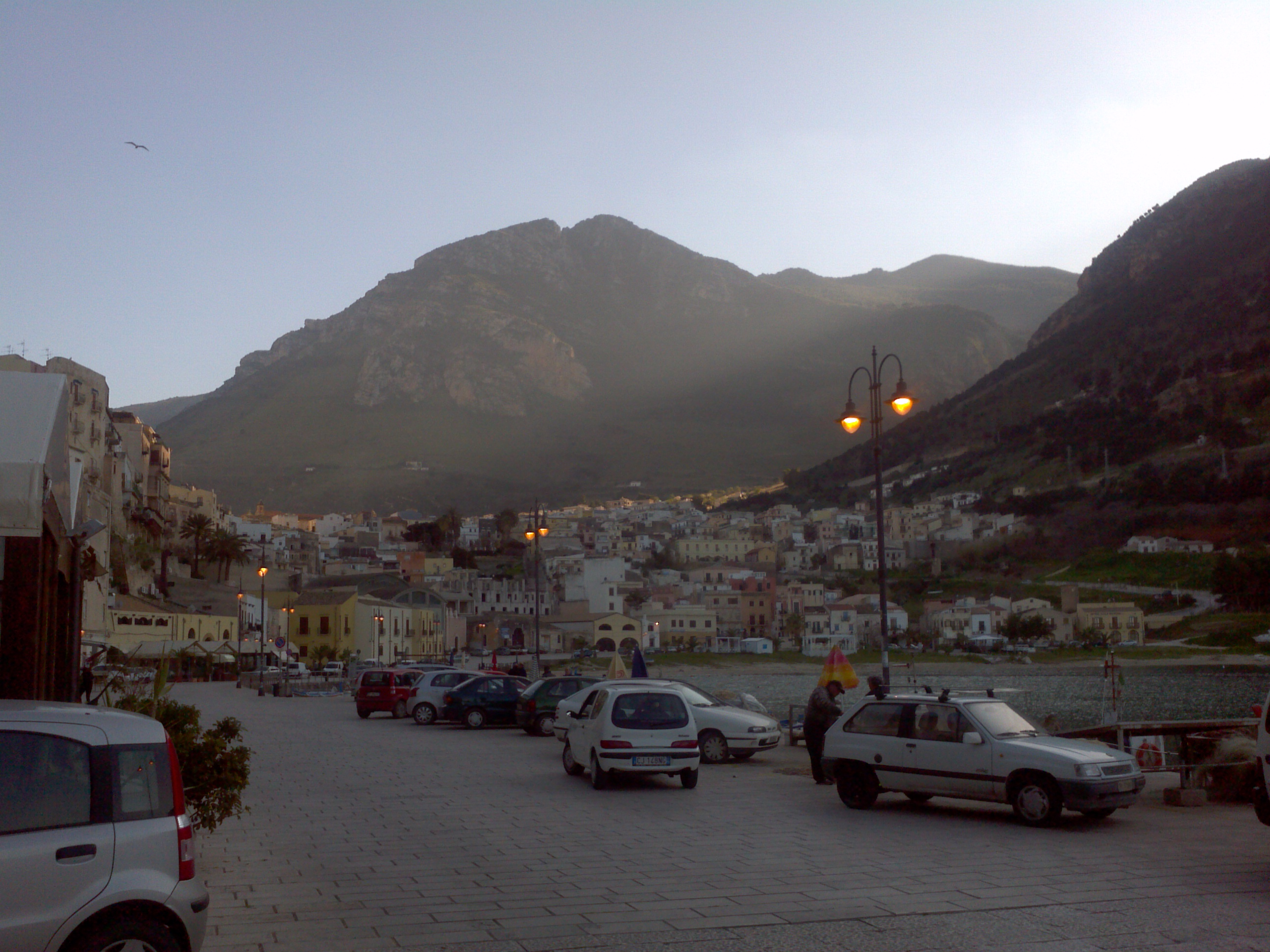 Castellammare del Golfo from the harbour